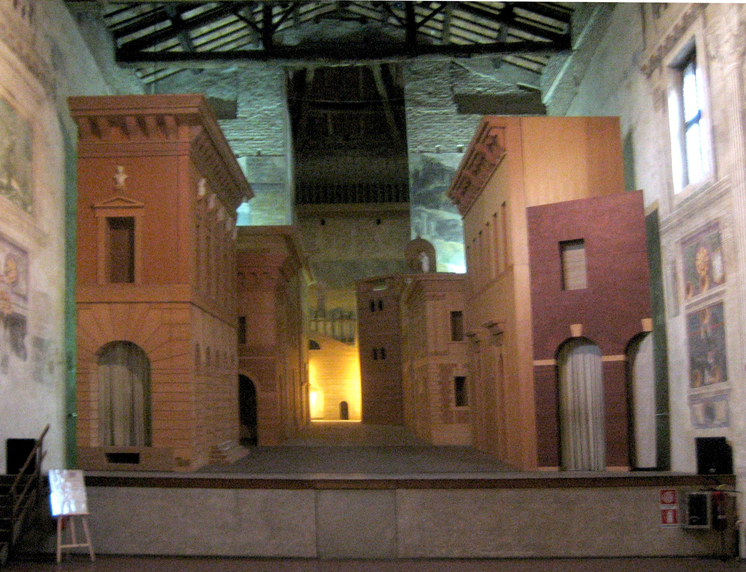 Teatro all'antica, Sabbioneta; View from the auditorium towards the stage